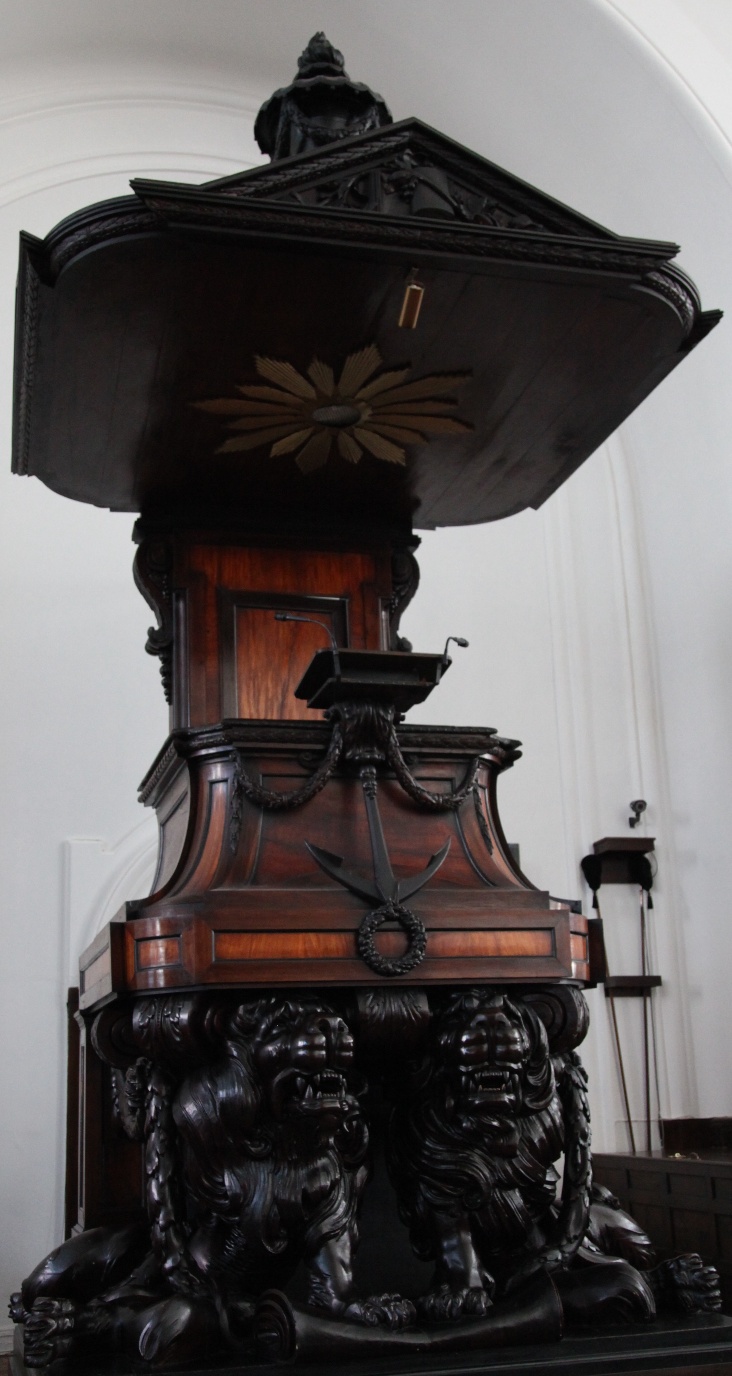 The Anton Anreith pulpit in the Groote Kerk, Cape Town. The pulpit was completed by Jan Jacob Graaff (1754-1804) and was inaugurated at the Groote Kerk in Adderley Street on 29 November 1789.